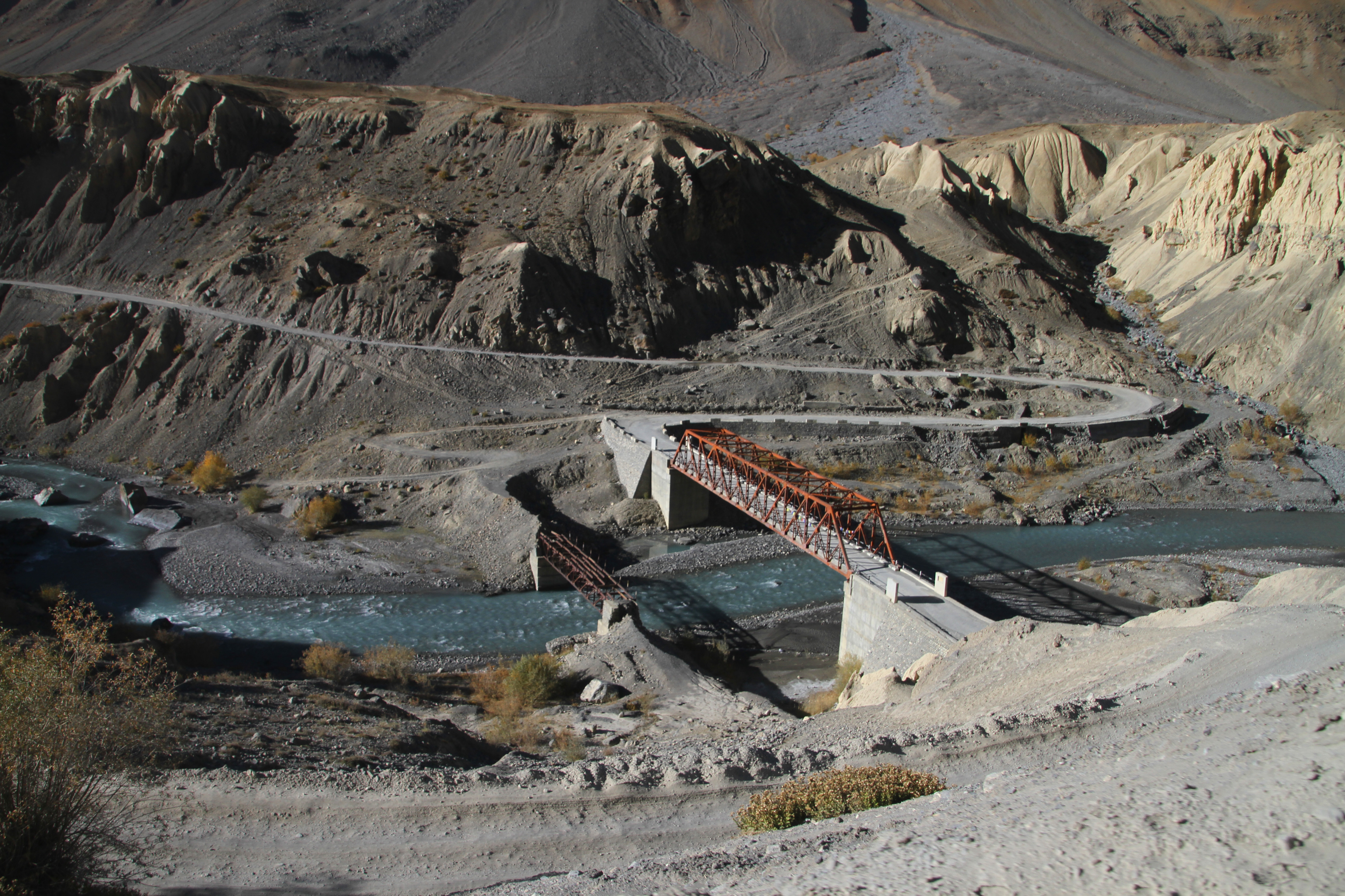 National Highway 505 from Kaza to Losar in Himachal Pradesh in India.